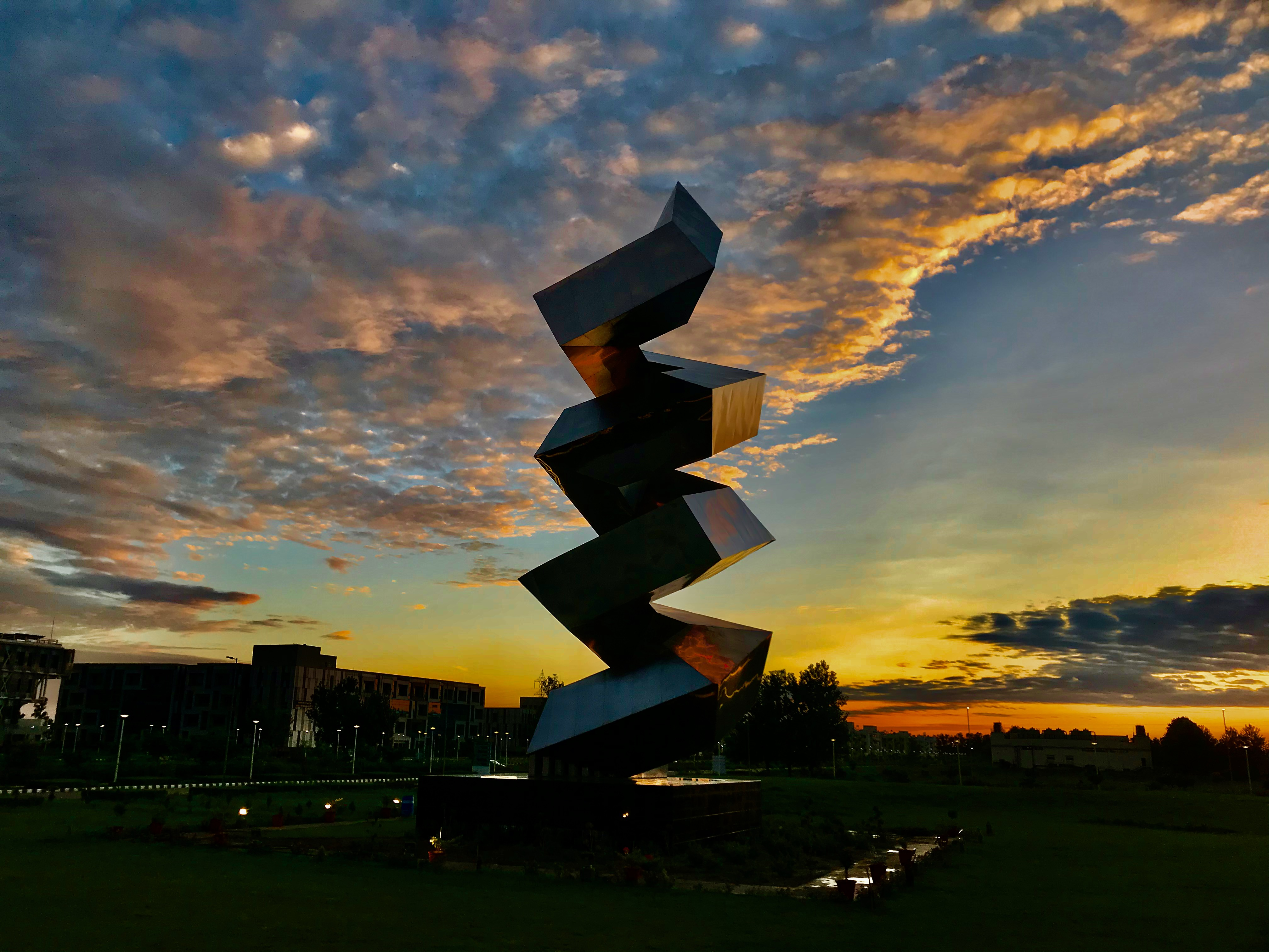 The Spiral - an artistic representation of the DNA structure. This structure is the first thing one notices after entering from the main gate complex of the Indian Institute of Technology Ropar. Philosophically, the three turns in the structure enlight the mission and vision of IIT Ropar, i.e., the Contribution to the Knowledge, Contribution to the Society, and Contribution to the Nation.